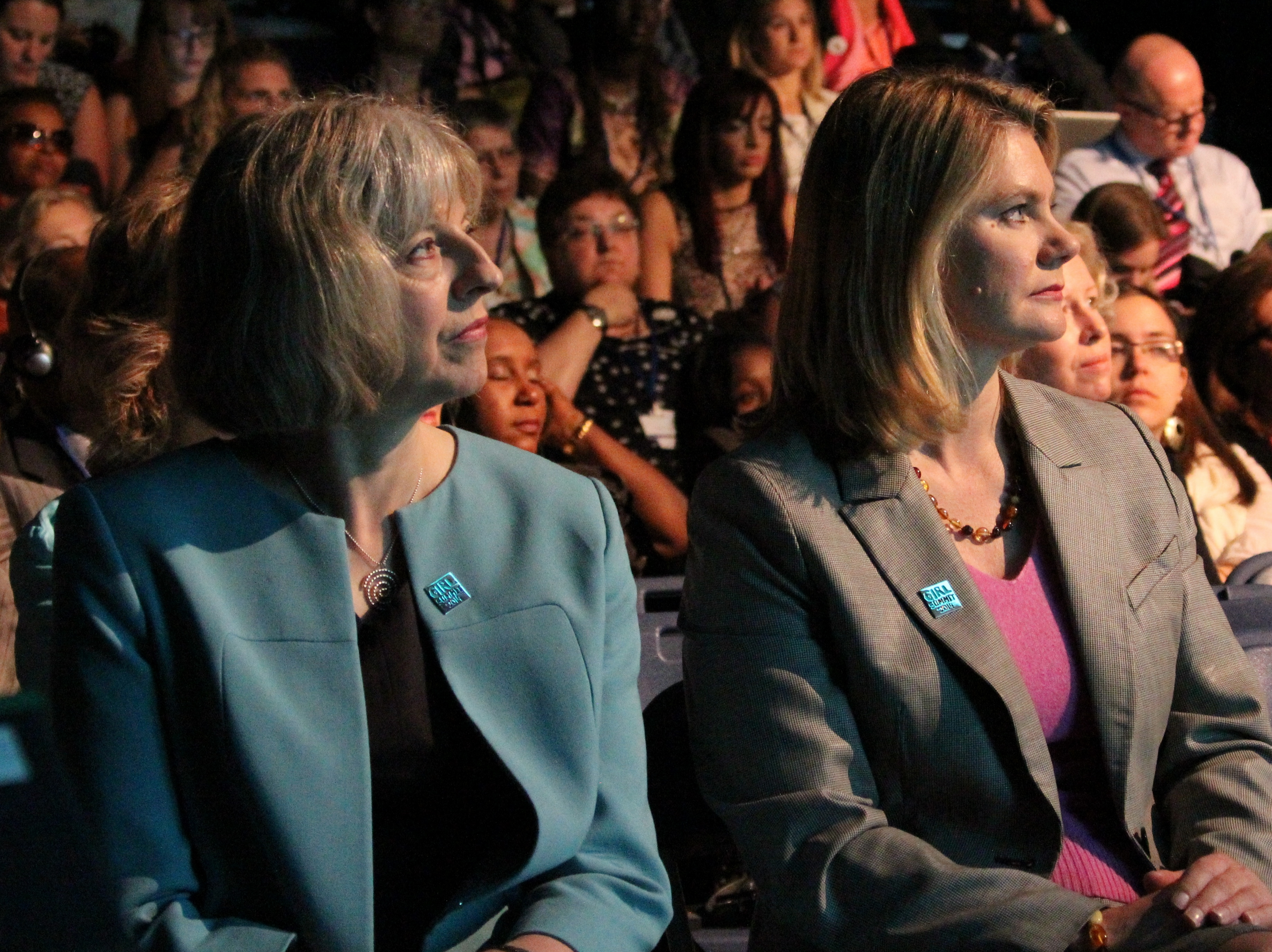 International Development Secretary, Justine Greening, and Home Secretary, Theresa May, at the Girl Summit. Picture: Russell Watkins/Department for International Development. Available free under the terms of Crown Copyright/Open Government License/Creative Commons - Attribution.